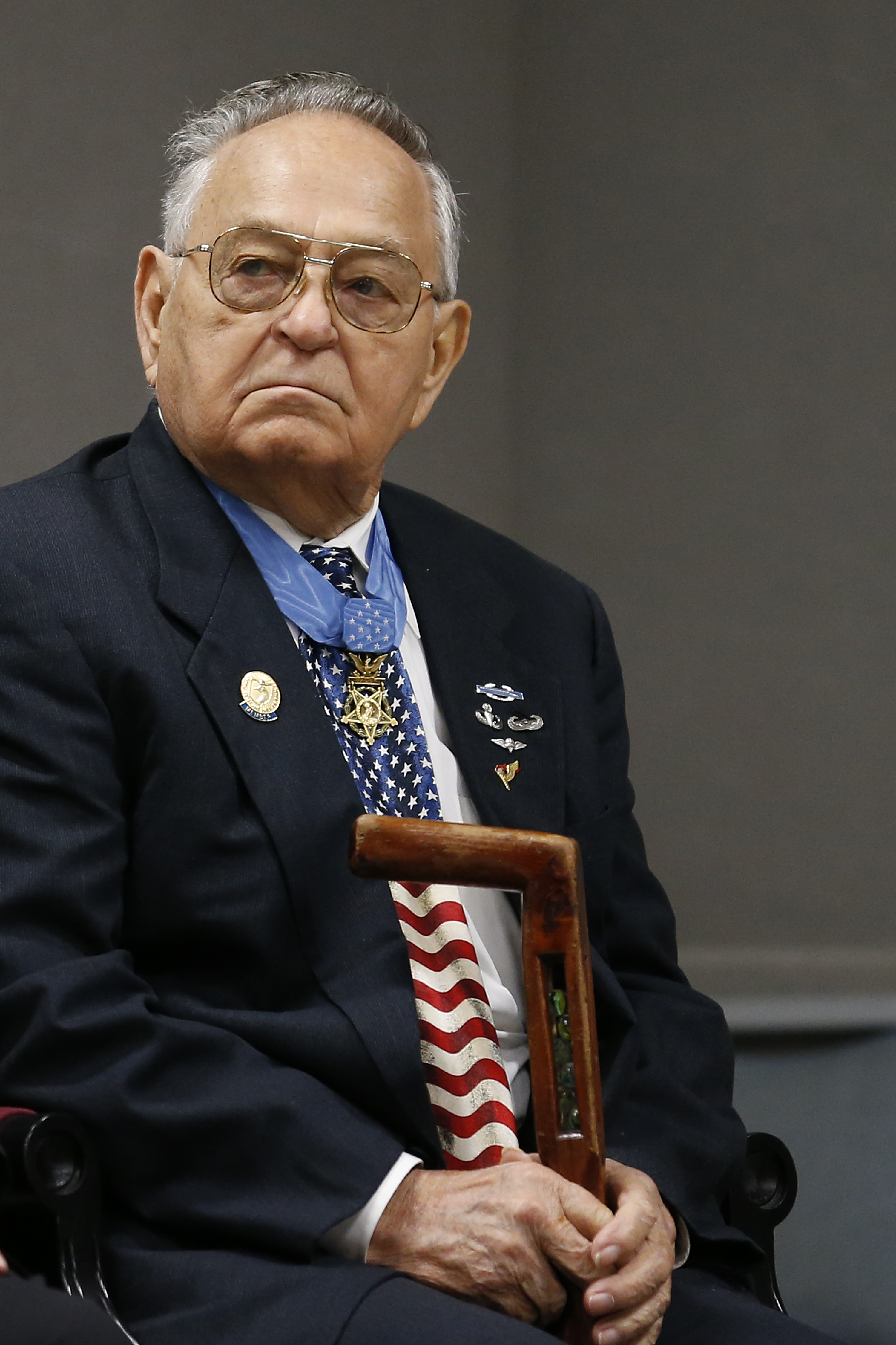 Medal of Honor recipient Ron Rosser is shown here prior to speaking during a panel discussion in Thayer Hall for cadets, staff and faculty Nov. 16. Rosser along with former Prisoner of War David Mills and President of the Korean War Veterans Association Jim Ferris, are taking part in 60th Anniversary of the Korean War Commemoration events at West Point, today and Saturday. (U.S. Army photo by Tommy Gilligan/USMA PAO)